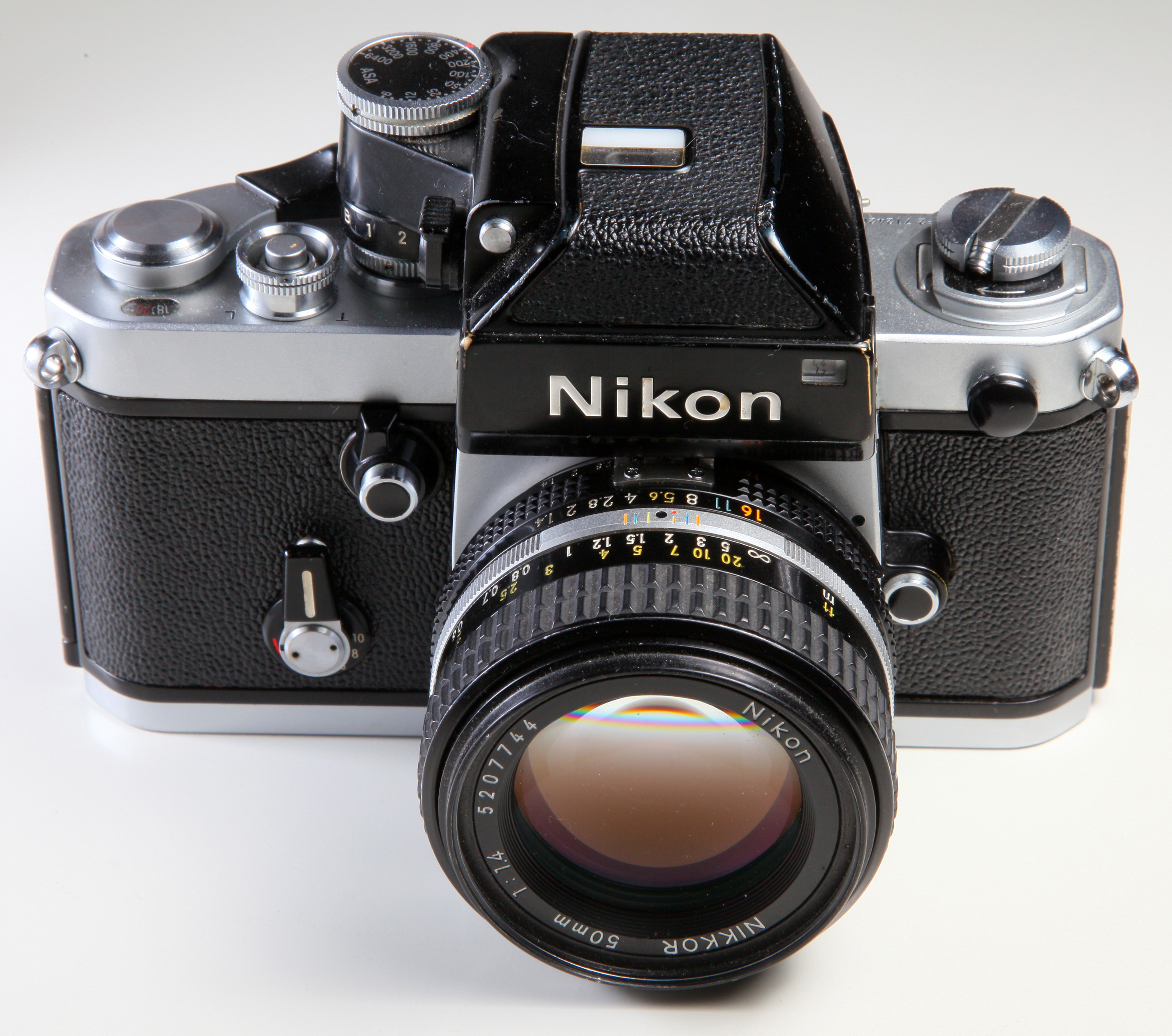 Nikon F2 Photomic chrome with Nikkor 50/1,4